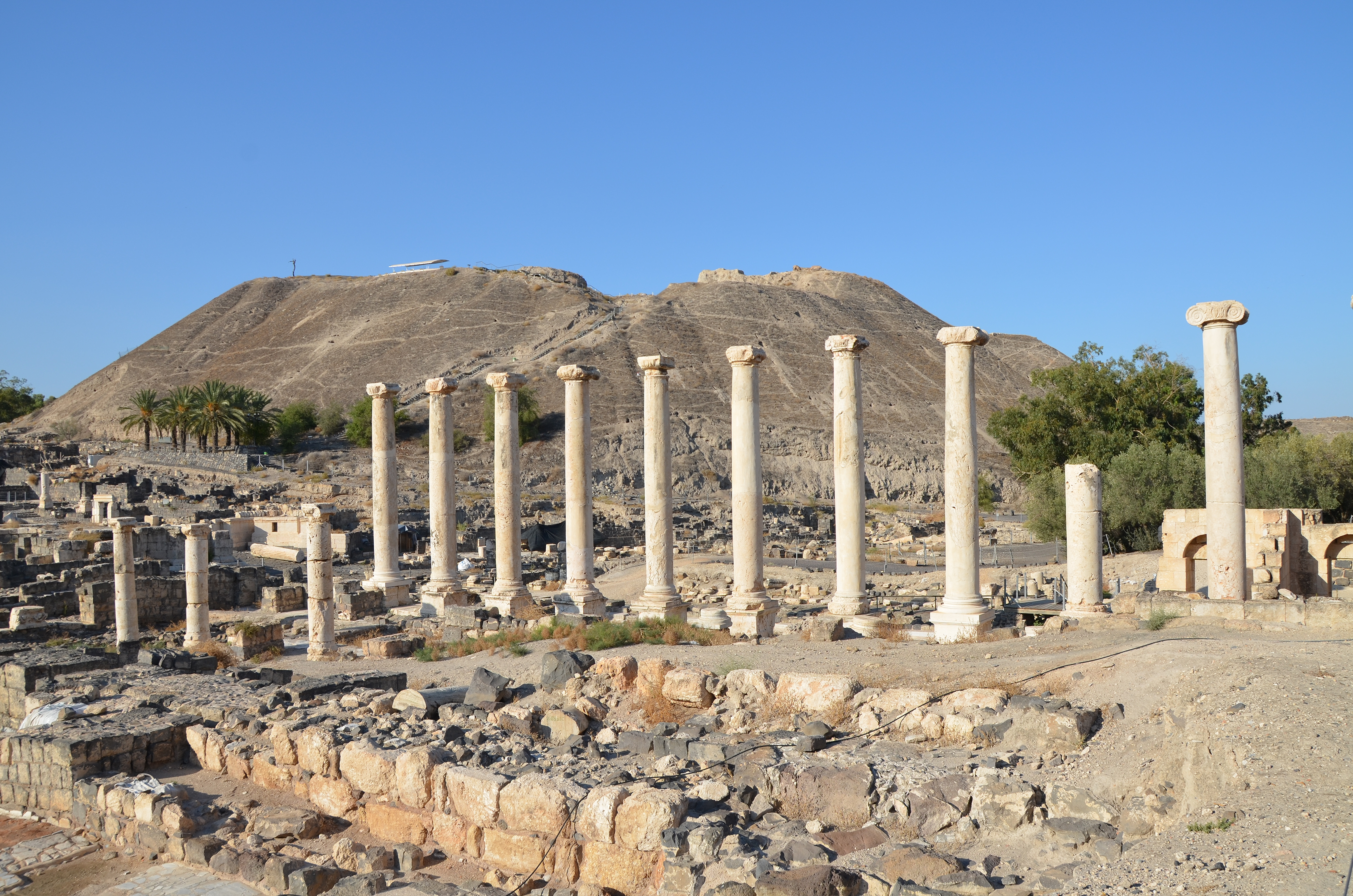 Colonnaded street, Scythopolis (Beth-She'an), Israel